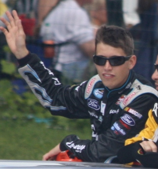 NASCAR driver Colin Braun during driver introductions at the 2010 Bucyros 200 the first Nationwide Series race at Road America.